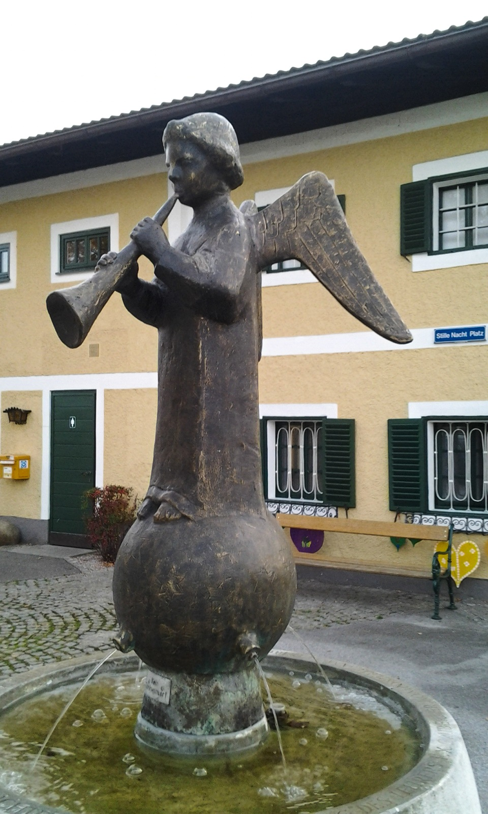 "Silent Night" fountain in Arnsdorf, muncipality of Lamprechtshausen, state of Salzburg, Austria. The name refers to the Christmas choral Silent Night, Holy Night which was composed by Franz Xaver Gruber. Gruber worked as a primary school teacher in the house shown behind the sculpture. The fountain was built on occasion of the 100th anniversary of his death in 1963.